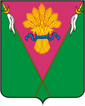 Platnirovskoe (Krasnodar krai), coat of arms